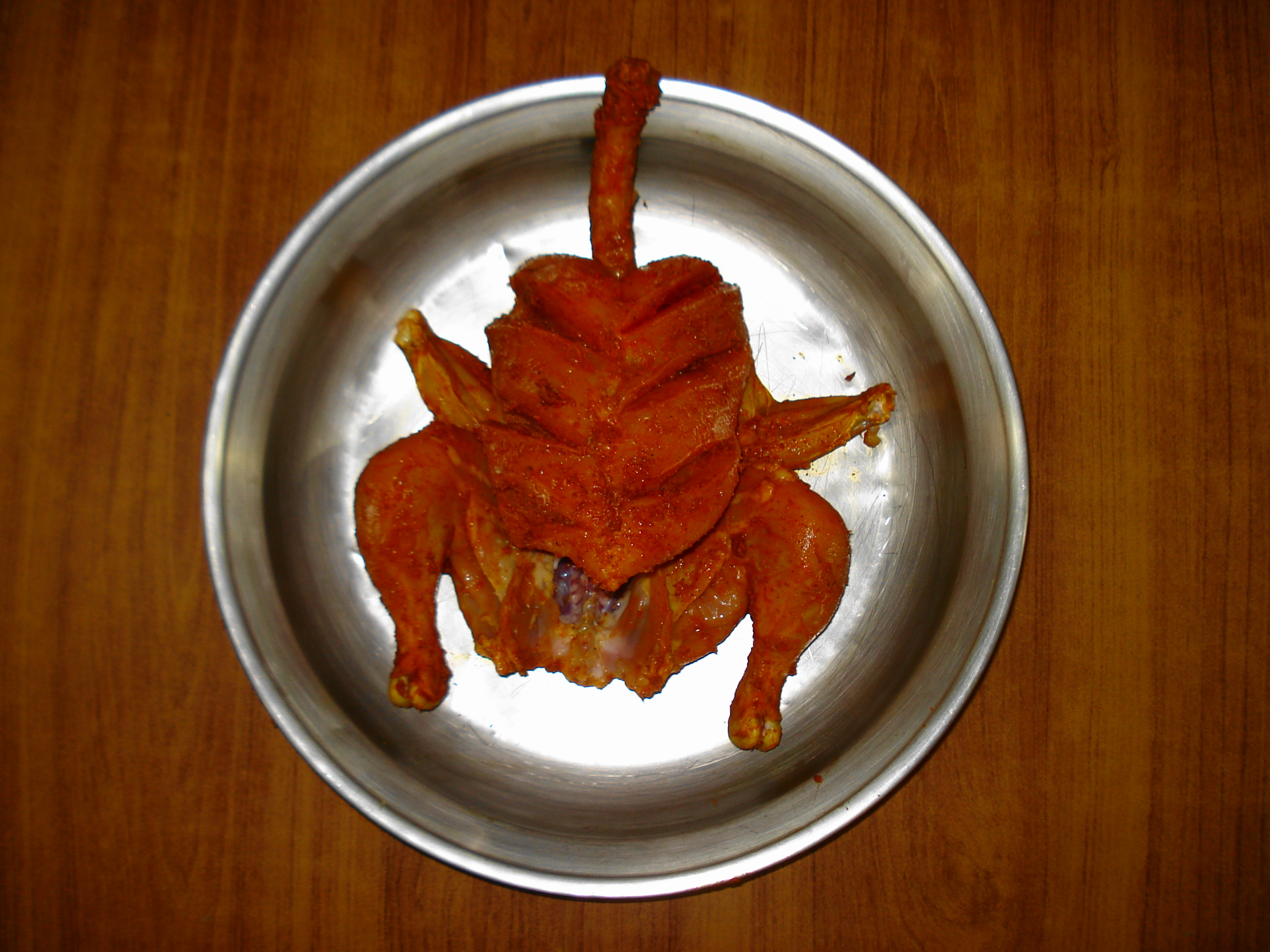 Lahori charga